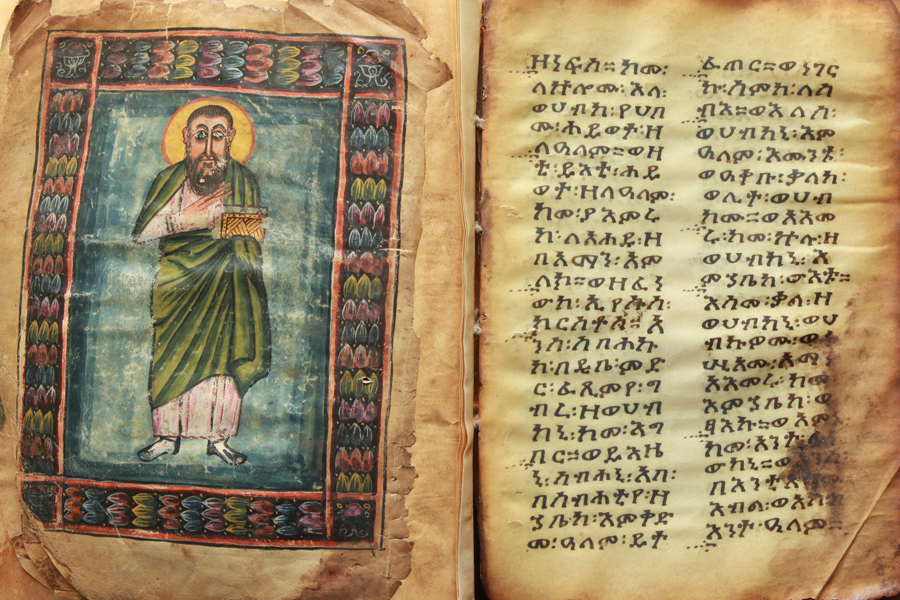 Illumination from the Garima Gospels